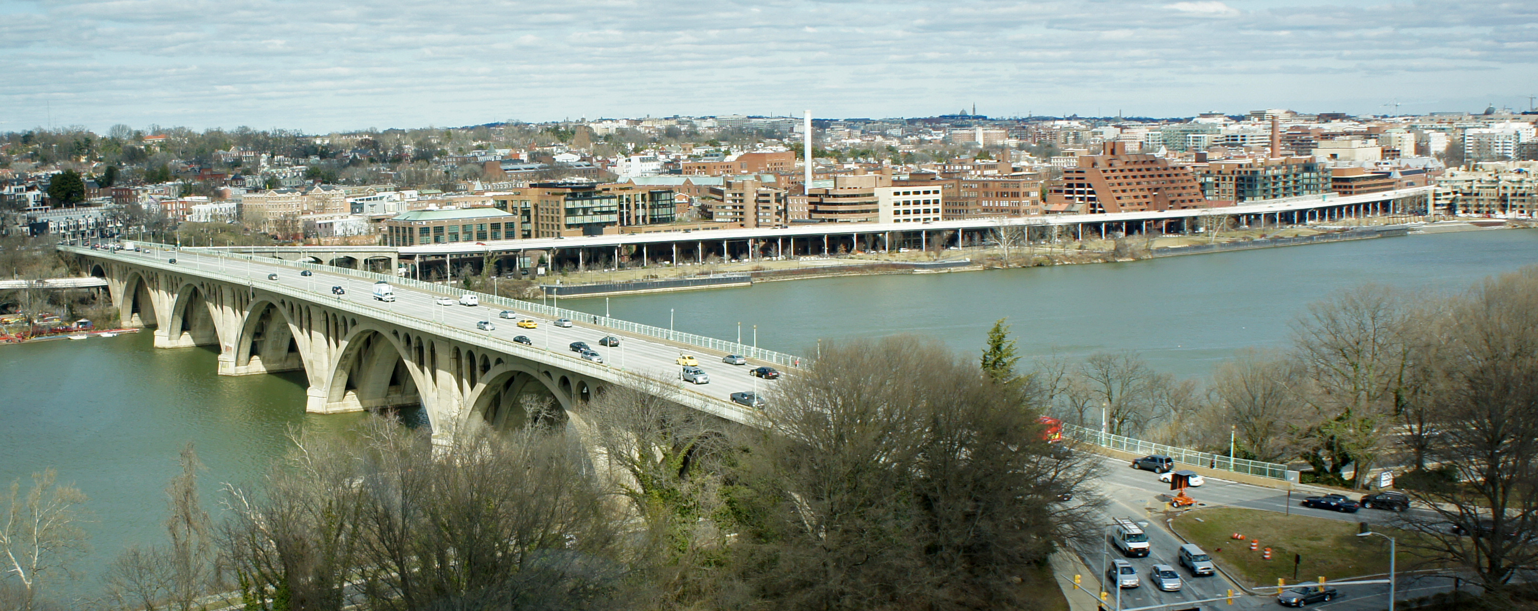 Key Bridge panoramic view, Washington, D.C.